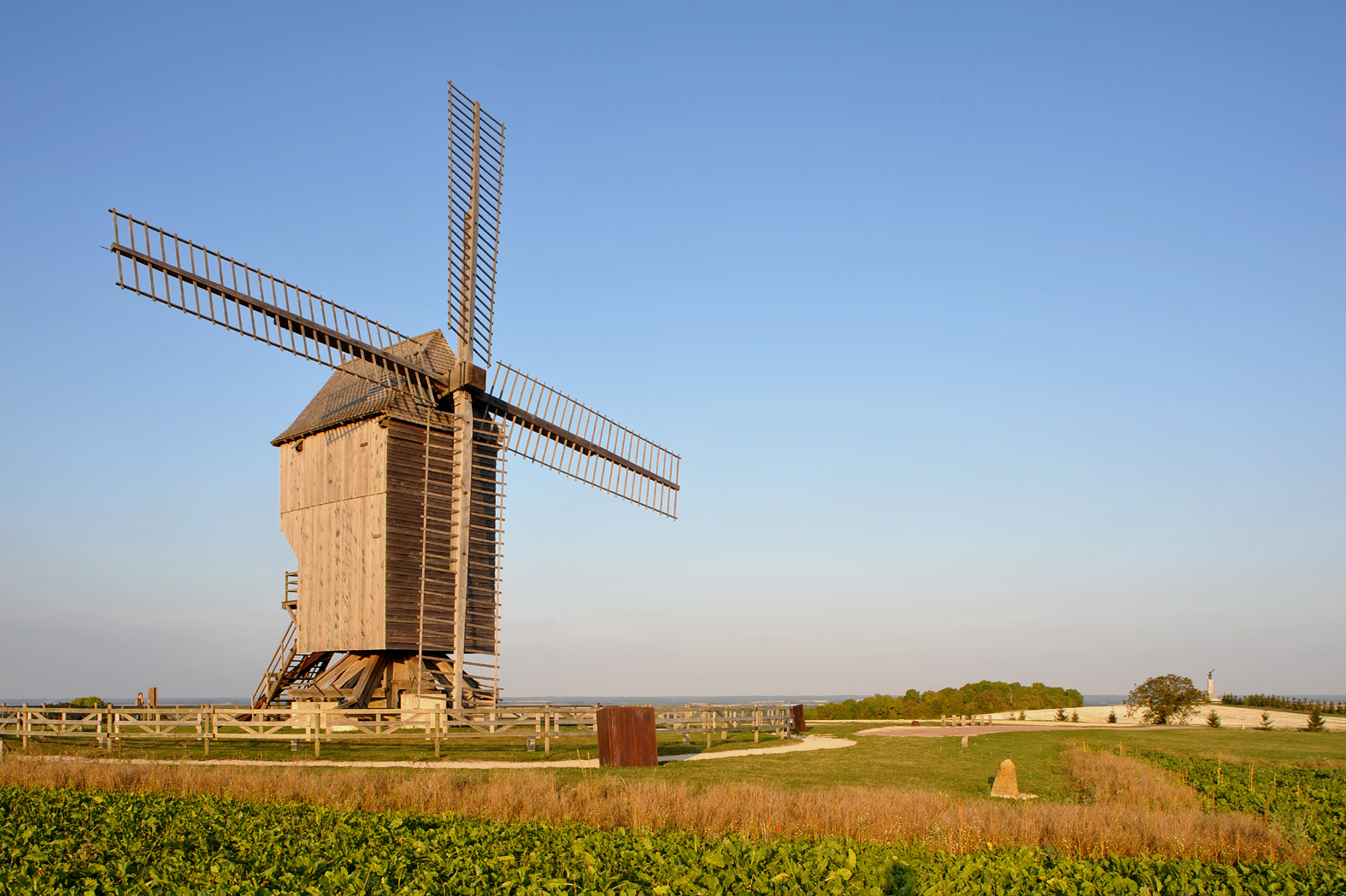 Windmill of Valmy, at the right in the background the monument of François-Christophe Kellermann; Marne, France.